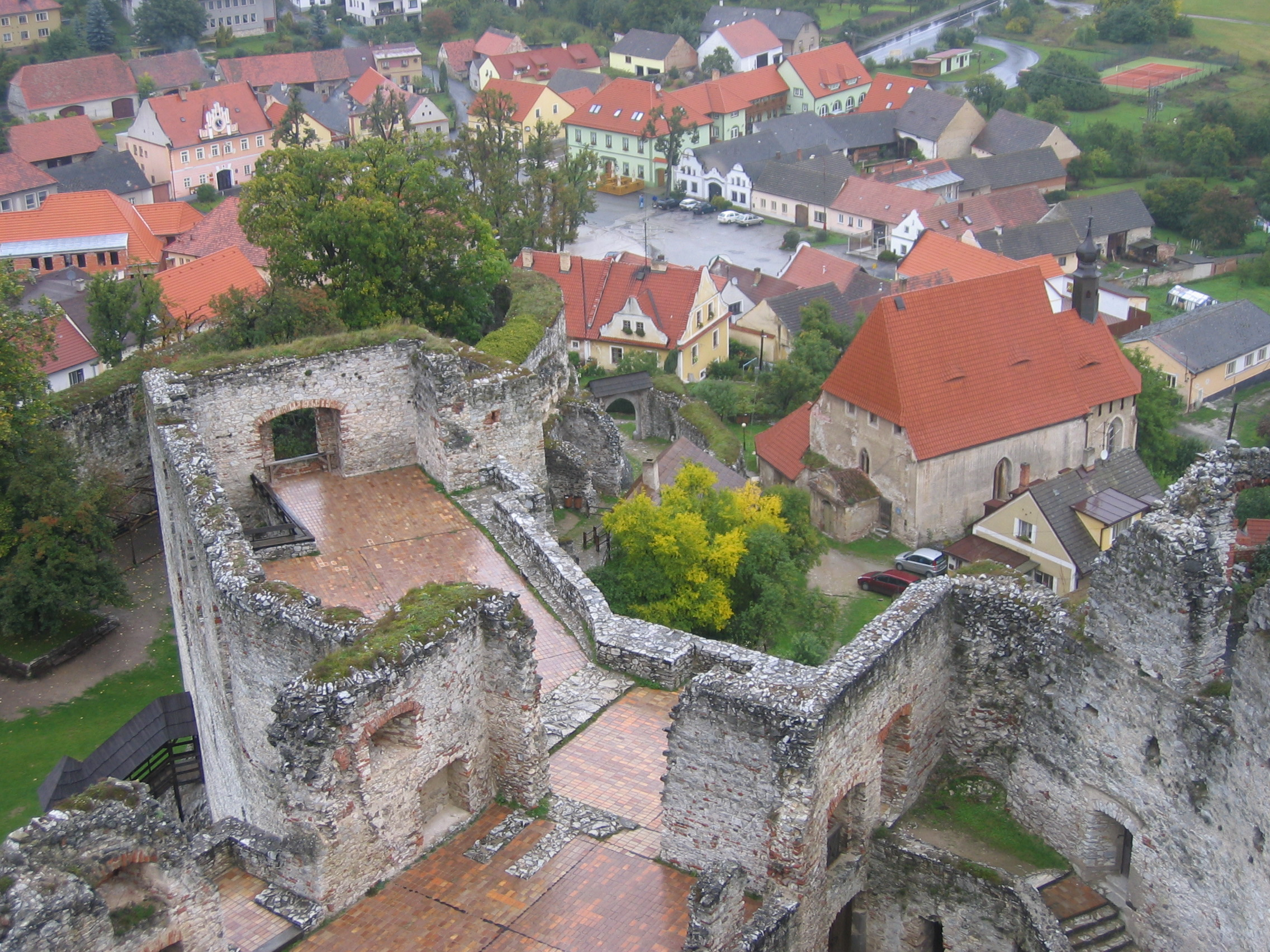 Ruins of the Castle Rabí in Plzeň Region - View from the Tower to de Main Village square